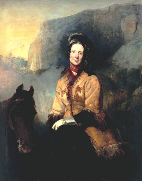 A painting of Lady Florentia Sale escaping from Kabul on horse